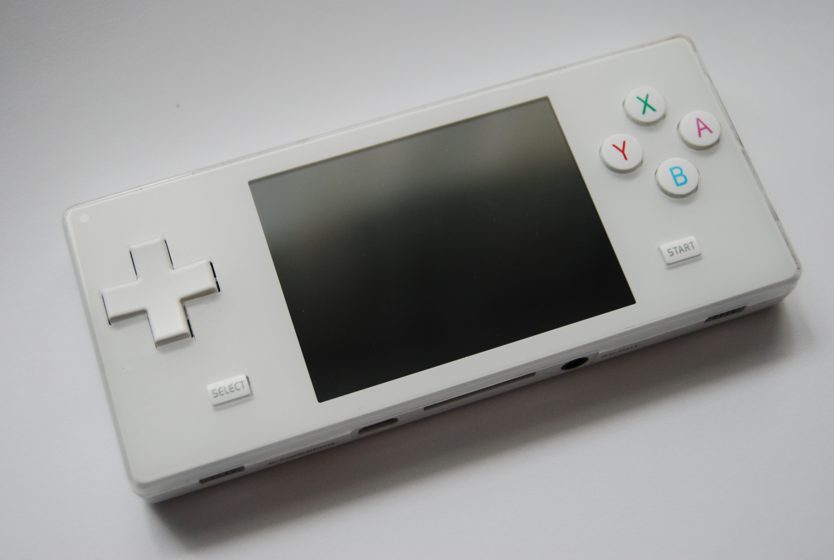 Multimedia player Dingoo A320, white color.